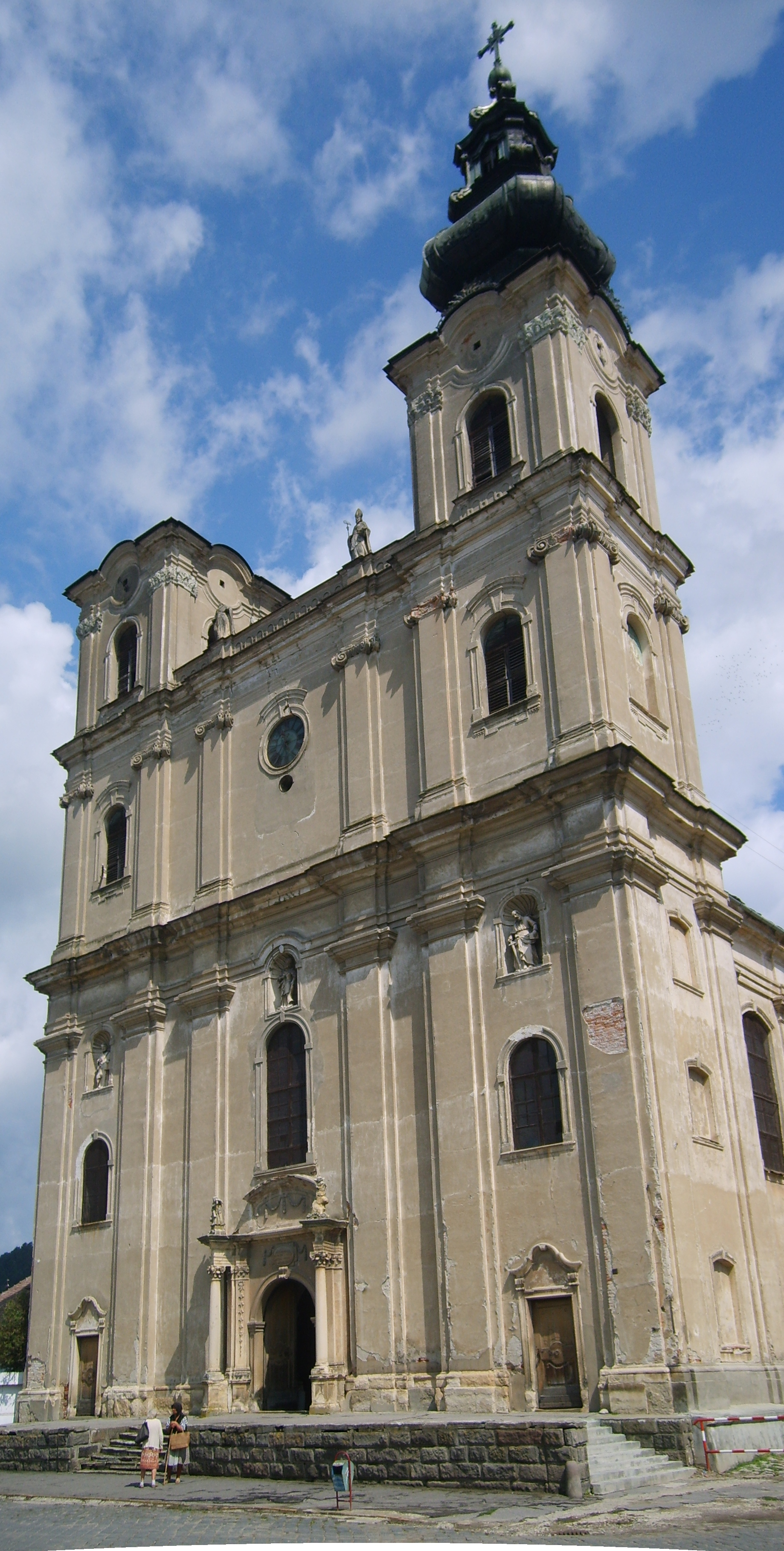 The church in the main square of Dumbrăveni, Romania. I created it merging two different pictures using the programs: autopano, hugin, enblend, GIMP for cropping.